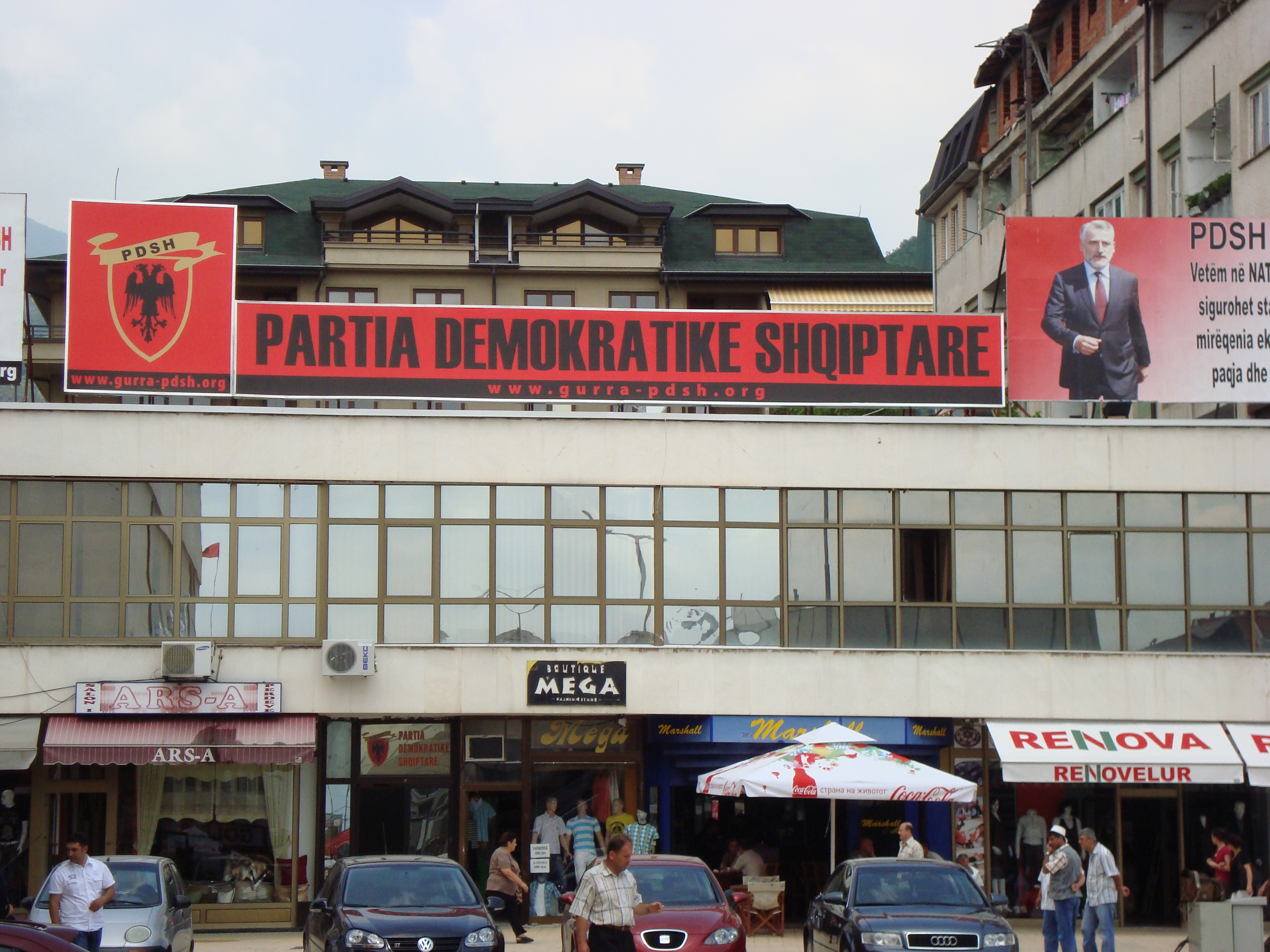 The seat of DPA in Tetovo, Macedonia.